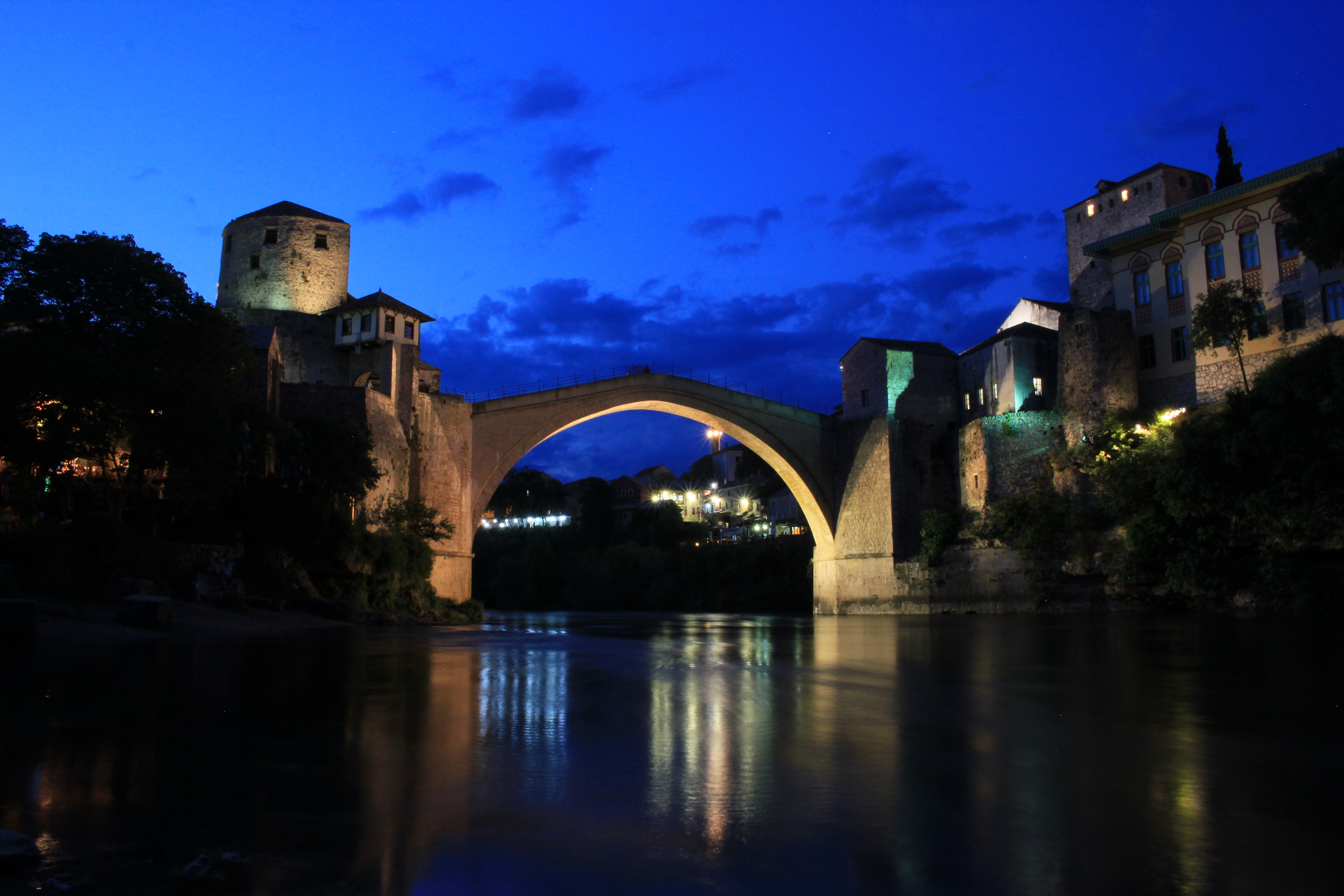 Old bridge in Mostar.